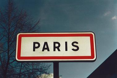 City limit sign of Paris (France).